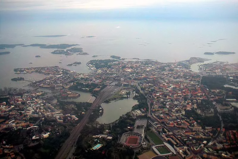 A view of central Helsinki, Finland, the southern tip of the Helsinki Peninsula, from an aircraft. In the bottom right-hand corner is the district of Töölö, and on the left side, across the railway tracks and the Töölö bay (which looks more like a lake), lies the district of Kallio. In the front there are the Helsinki Olympic Stadium, the new football arena named Finnair Stadium, and the Swimming Stadium. Helsinki's central railway station and the core downtown area is approximately at the center of the photo. Out on the sea, to the left, the islands of the historical Suomenlinna fortress (among other islands) can be seen.